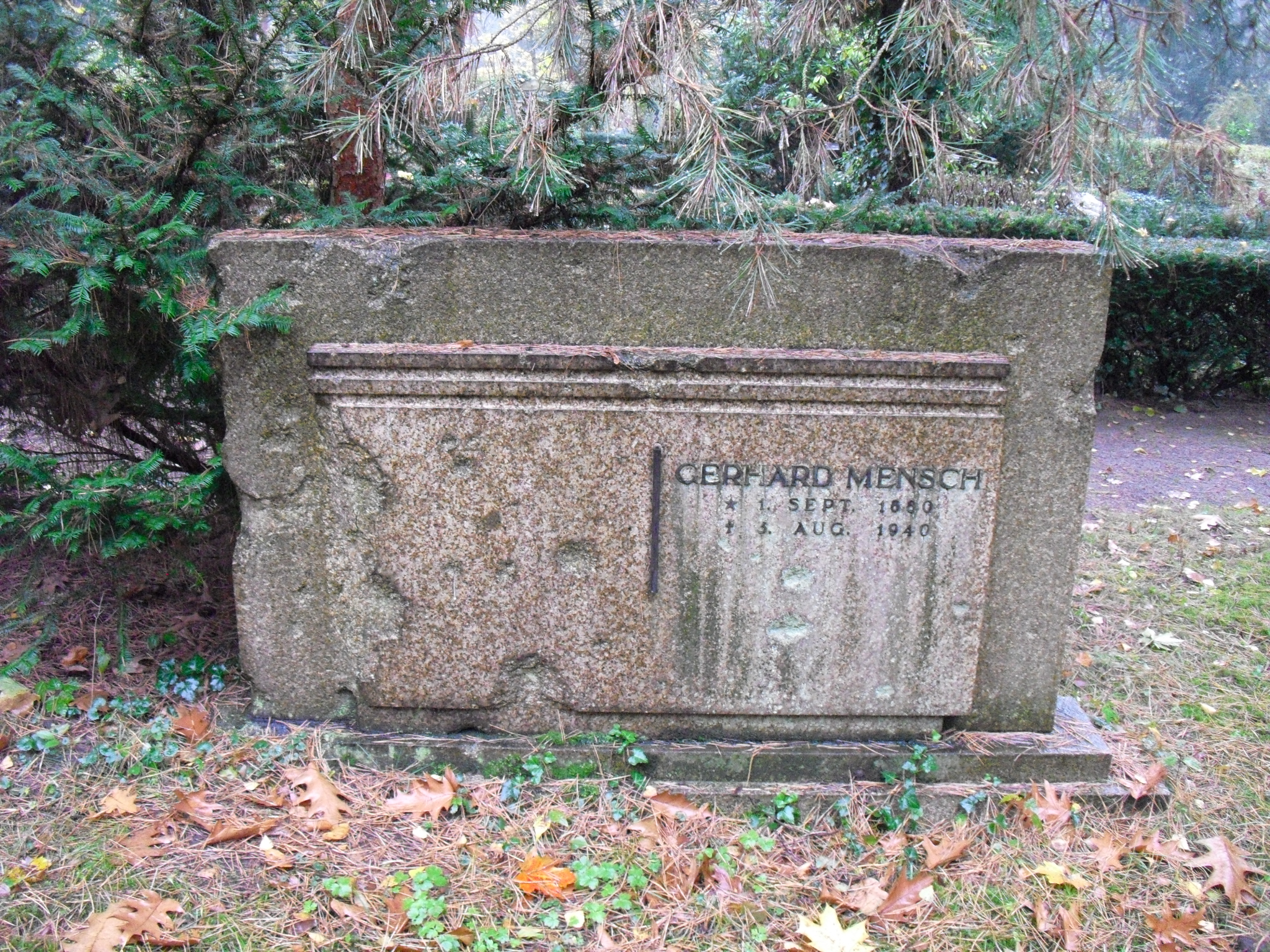 Grave of German civil engineer Gerhard Mensch at Friedhof Heerstraße in Berlin-Westend